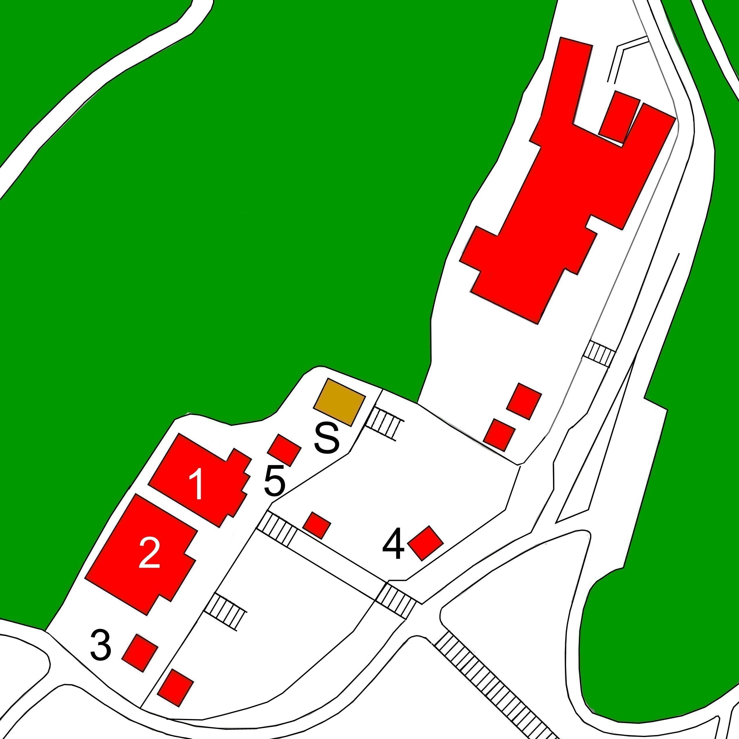 Layout of Kiyotaki temple at Tosa, Kôcji Prefecture, Japan